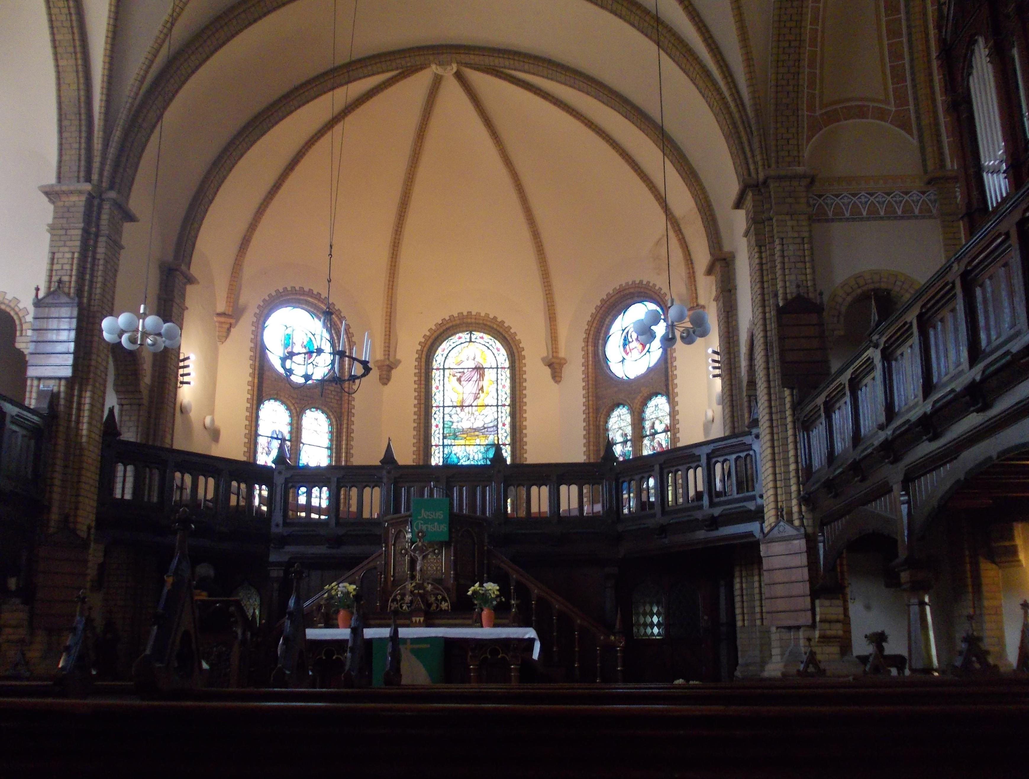 Church in the Diakoniewerk in Halle (Saale), Saxony-Anhalt